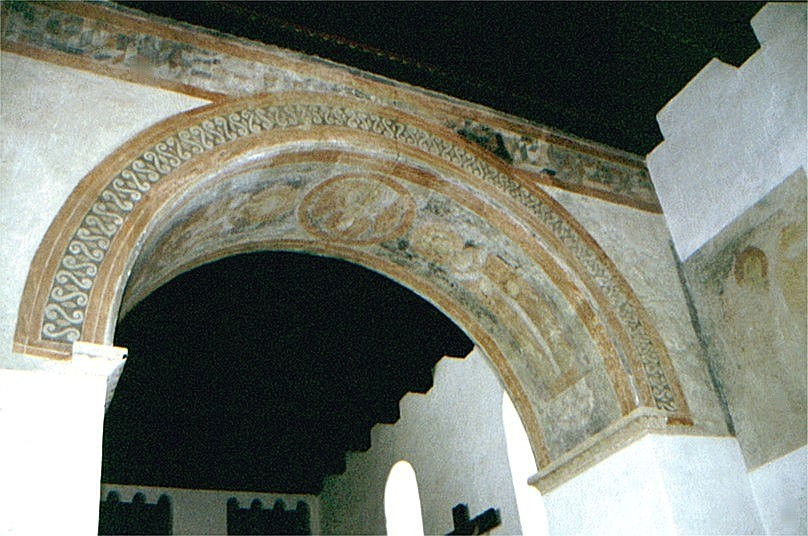 Fjenneslev Kirke